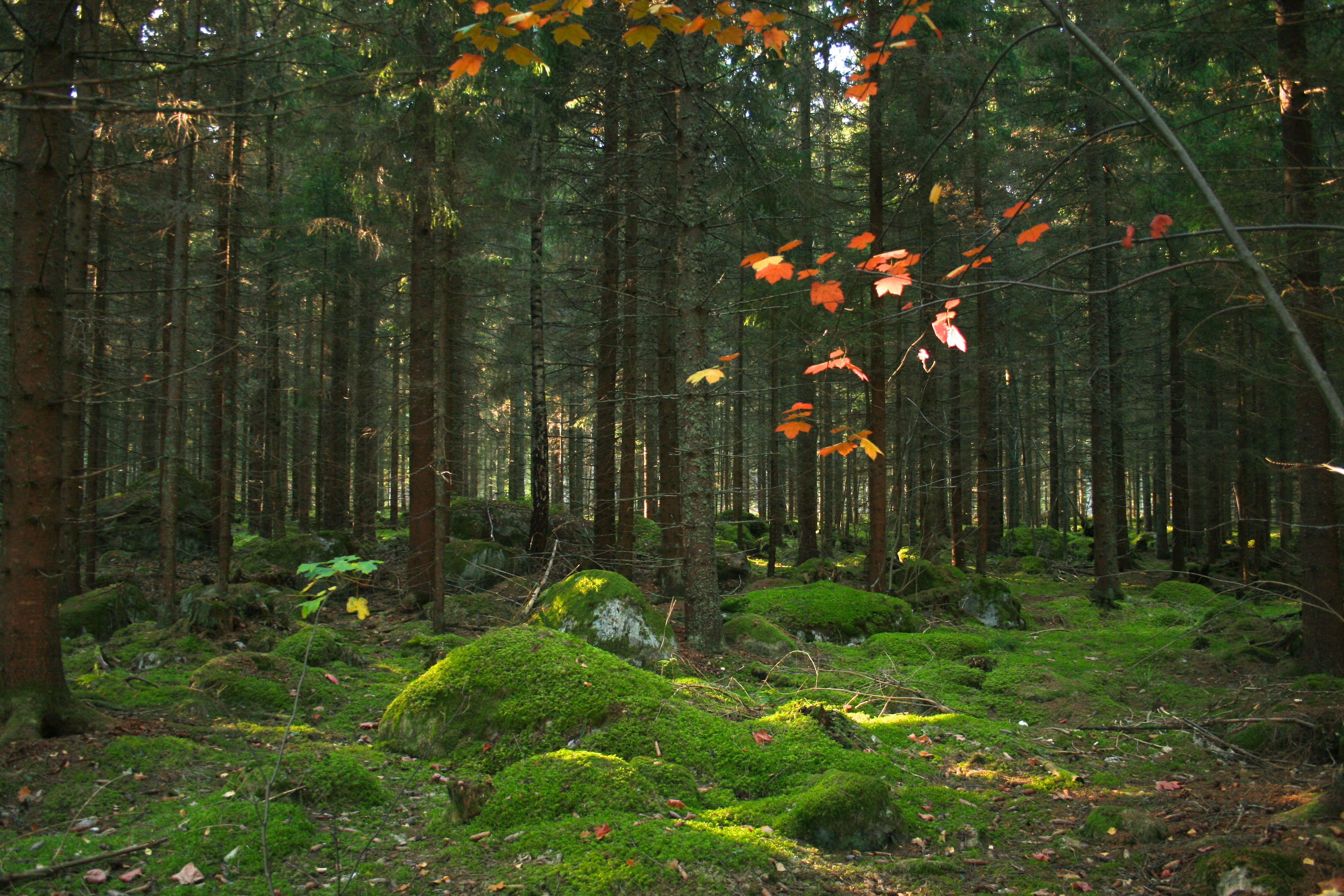 Forest in Mattön, Färnebofjärden national park